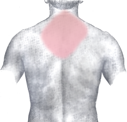 Pain in acute myocardial infarction (rear)